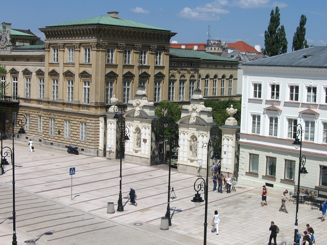 Main gate to the University of Warsaw. A view from Institute of Philosophy.